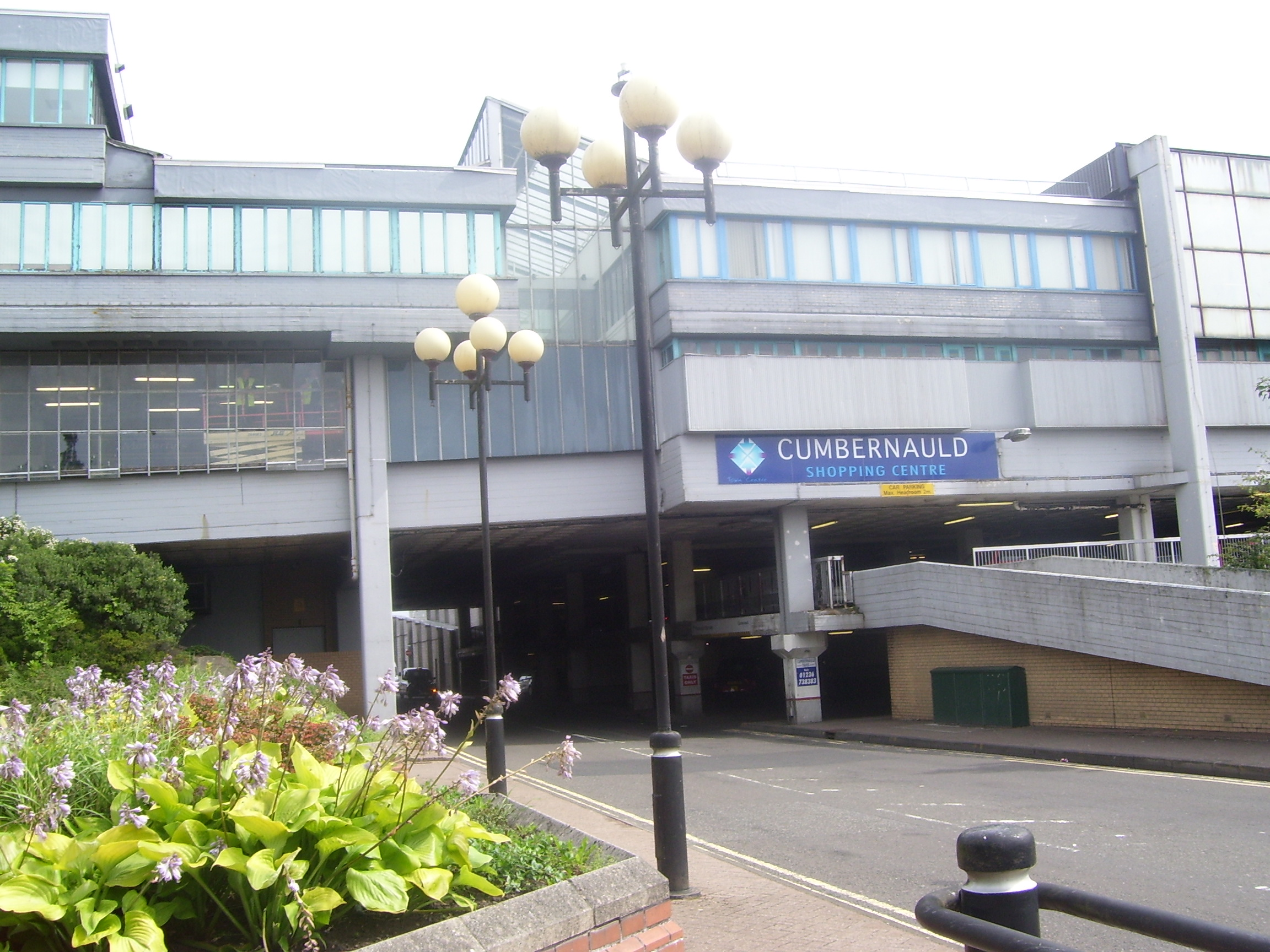 Cumbernauld Shopping Centre